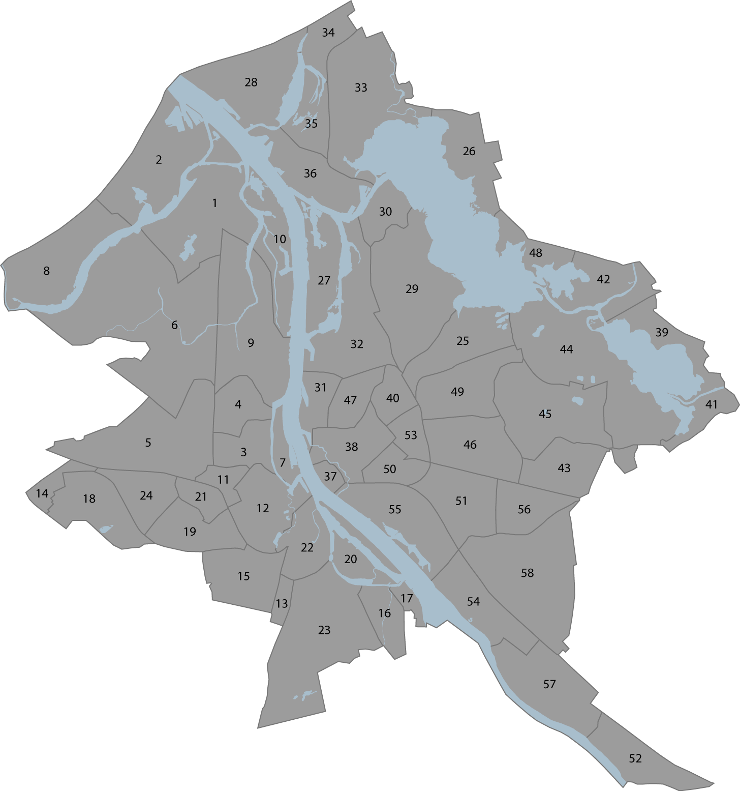 A map of Riga, Latvia with the eponymous commune highlighted.